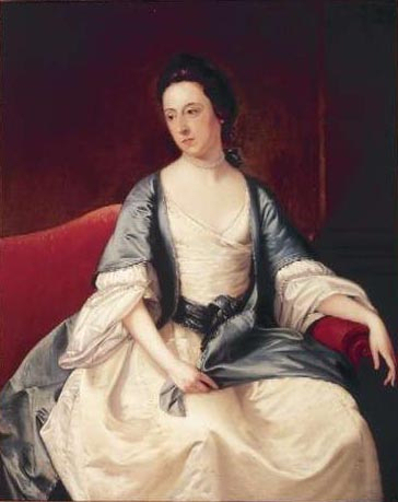 Portrait of Anne Borrow